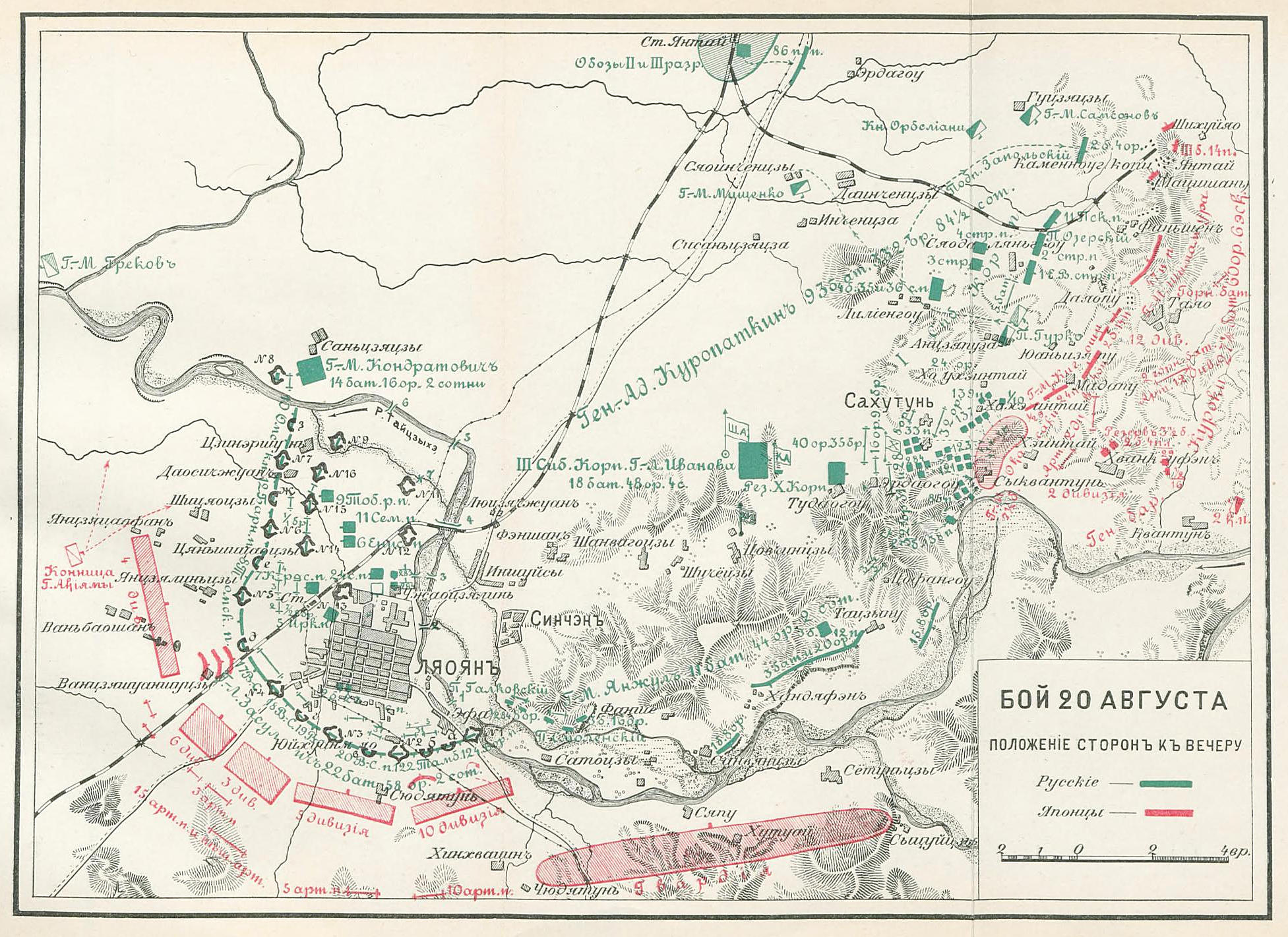 Battle of Liaoyang